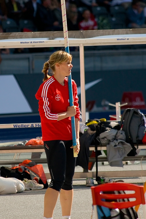 Silke Spiegelburg in Berlin (2007)